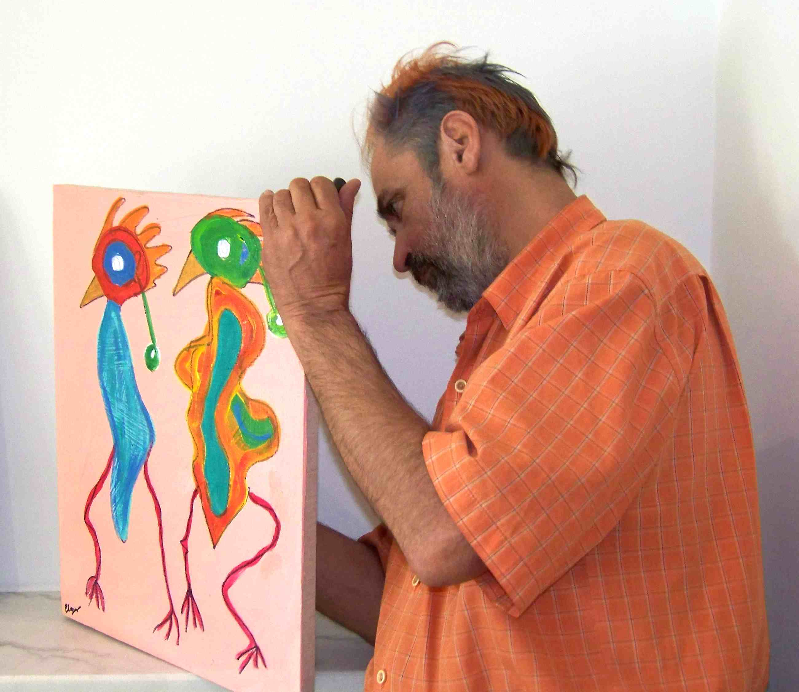 The mexican Painter Eliseo Garza Aguilar with "Consecration of the Springtime"